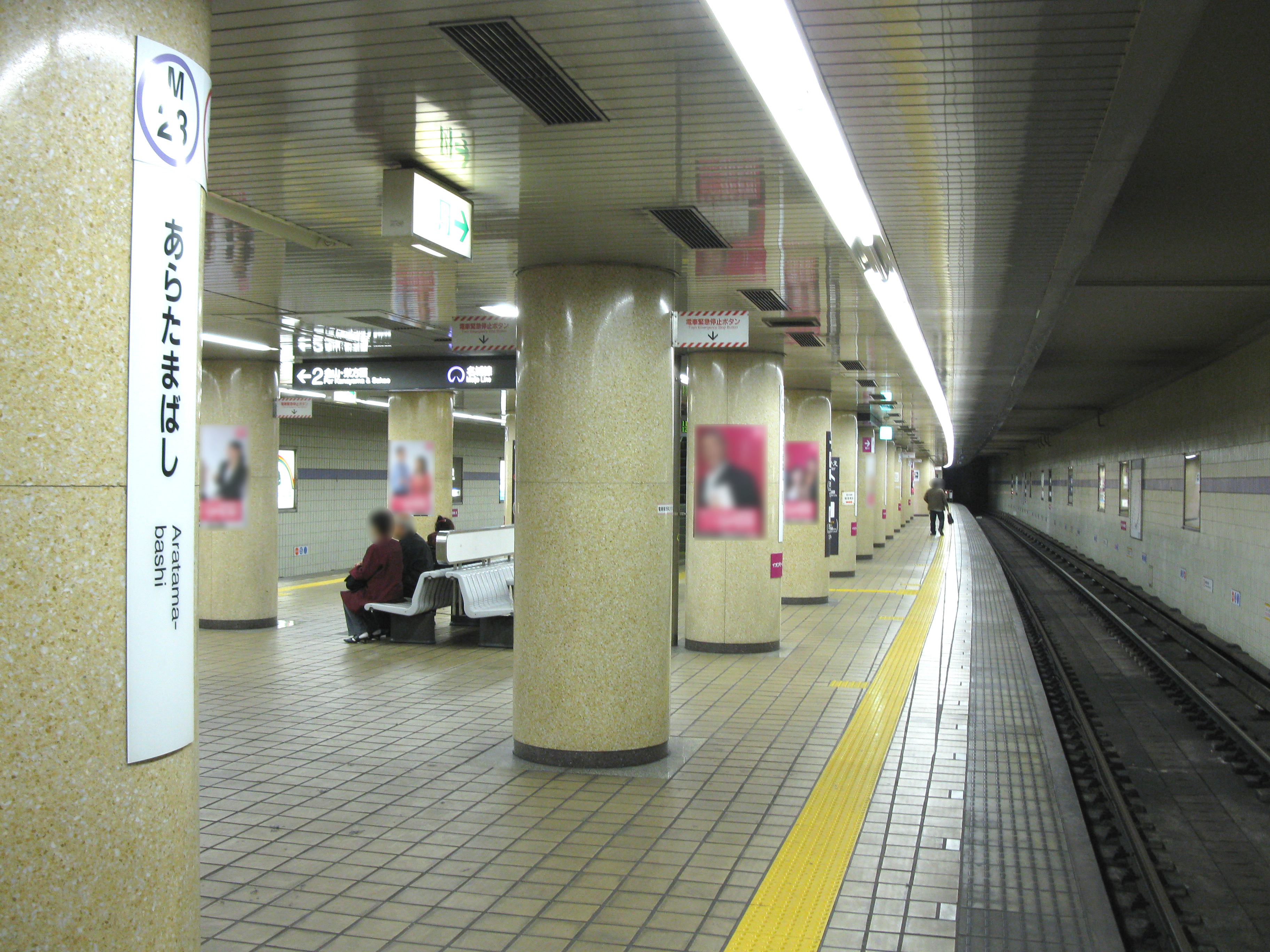 Aratama-bashi Station platform (Nagoya Municipal Subway Meijō Line)